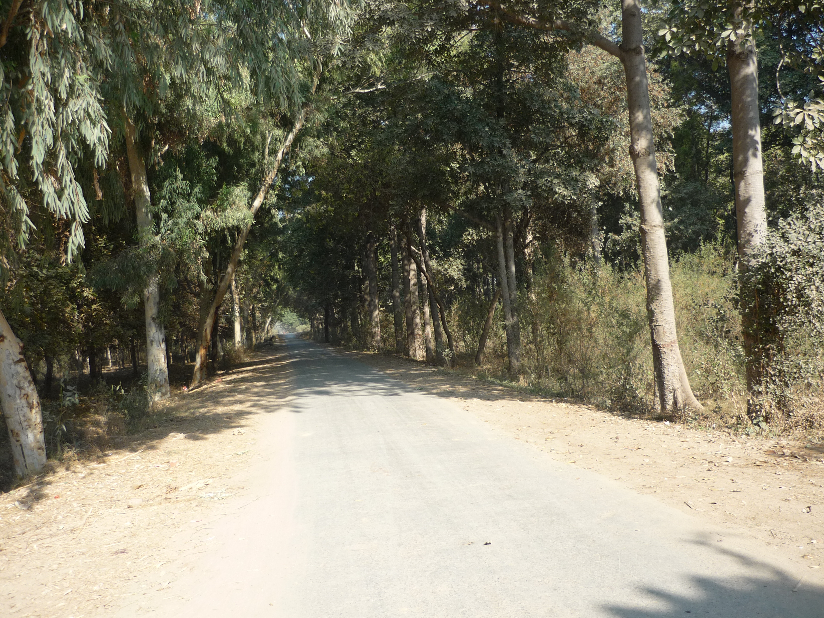 jungle on the way